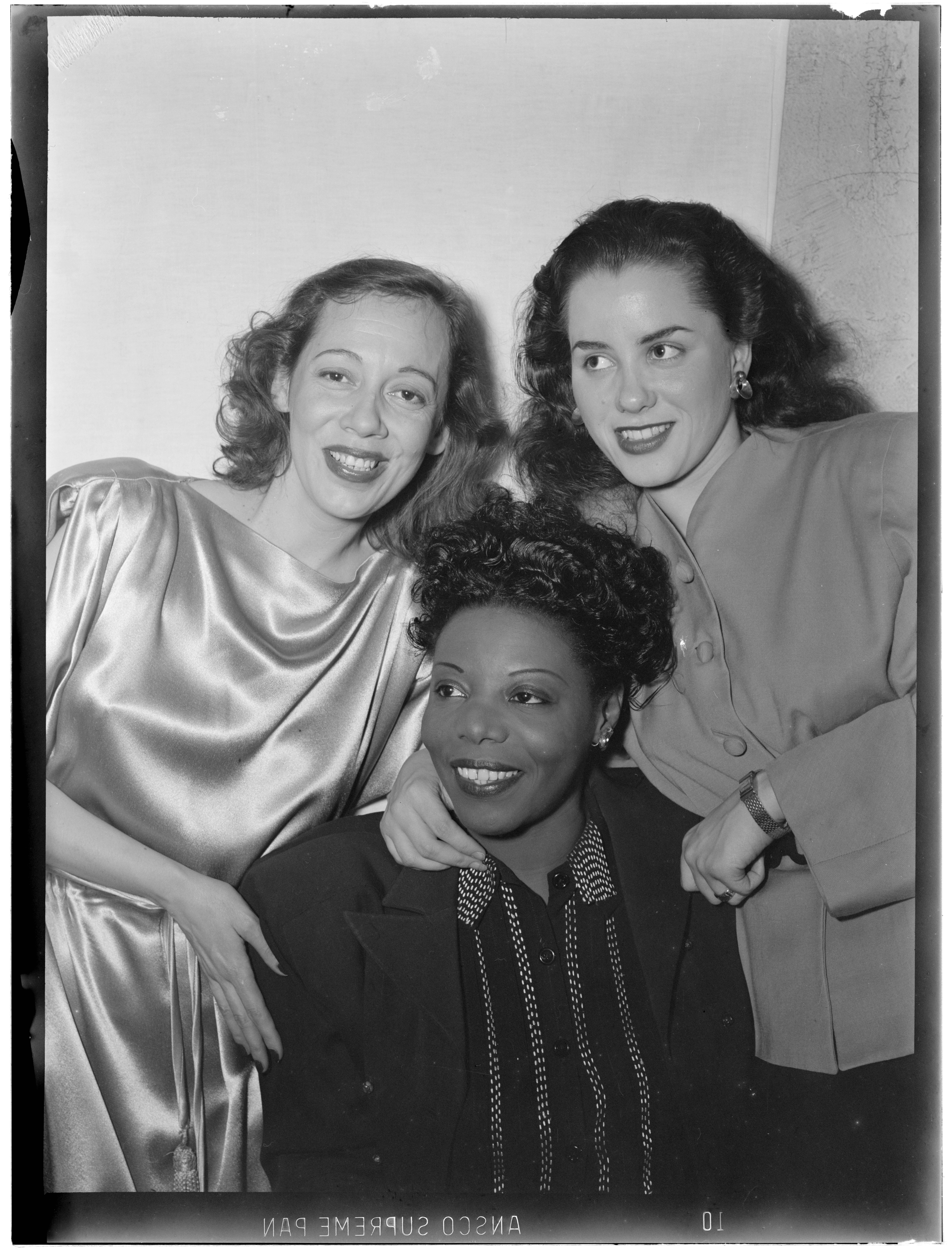 Mary Lou Williams, with Imogene Coca (left) and Ann Hathaway (right), between 1938 and 1948